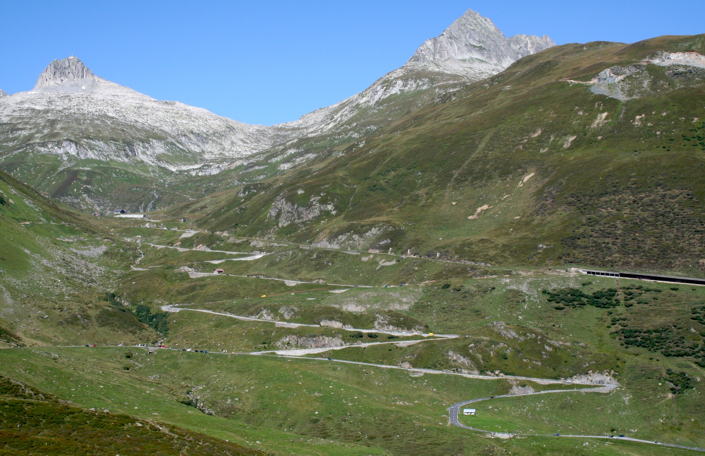 Oberalppass, eastern rise showing road serpentines and railway line above the road